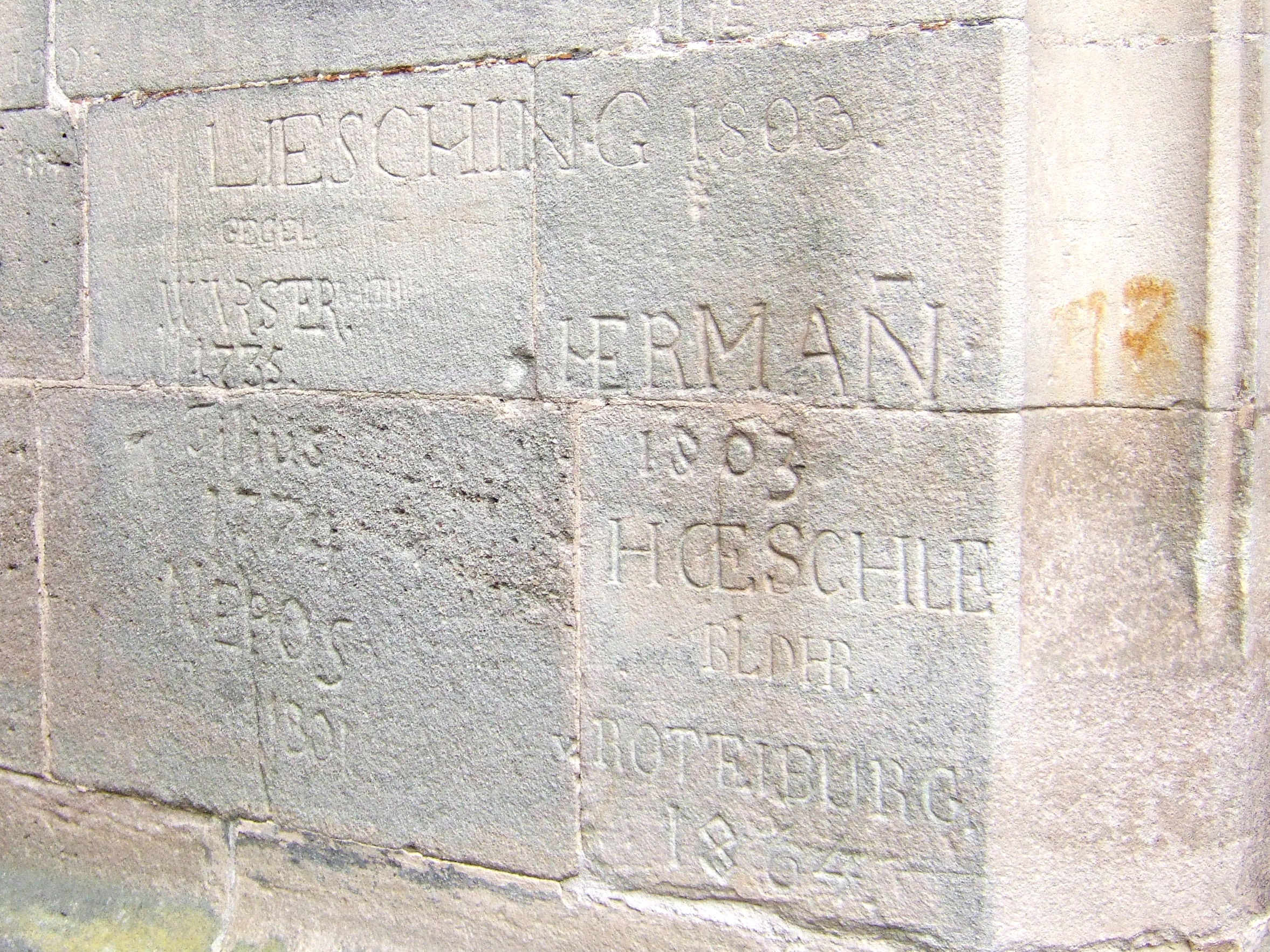 Names of former alumni of the Bebenhausen monastery school scratched into a cloister wall (period 1735 - 1864) (graffiti)